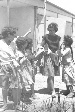 Caption: 1967. Marian Hostetler listens to questions from school children in Toumghani, Algeria. Citation: Mennonite Board of Missions. Photographs. Algeria Relief Work, 1960's. IV-10-7.2 Box 2 folder 28, photo #4. Mennonite Church USA Archives - Goshen. Goshen, Indiana.